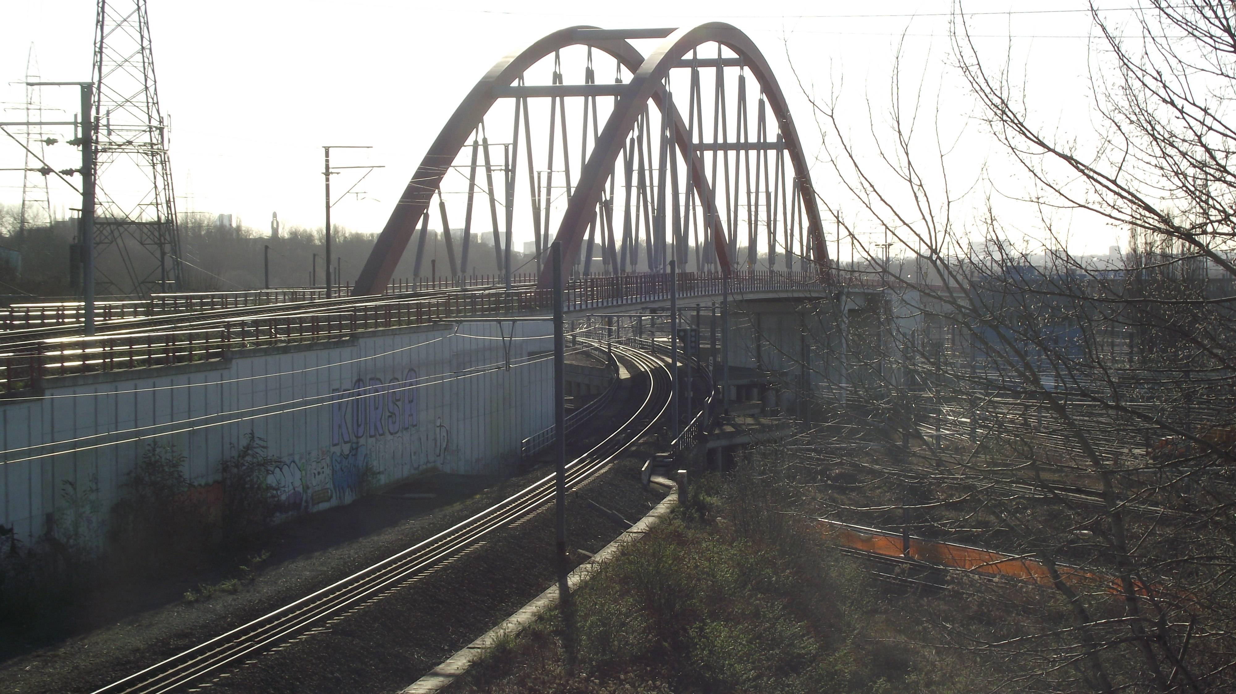 The line 36N continues on the viaduct, while the old line 36 (direction Leuven) goes underneath the viaduct. Beyond is the big railway yard of Schaerbeek. Taken from the viewpoint.